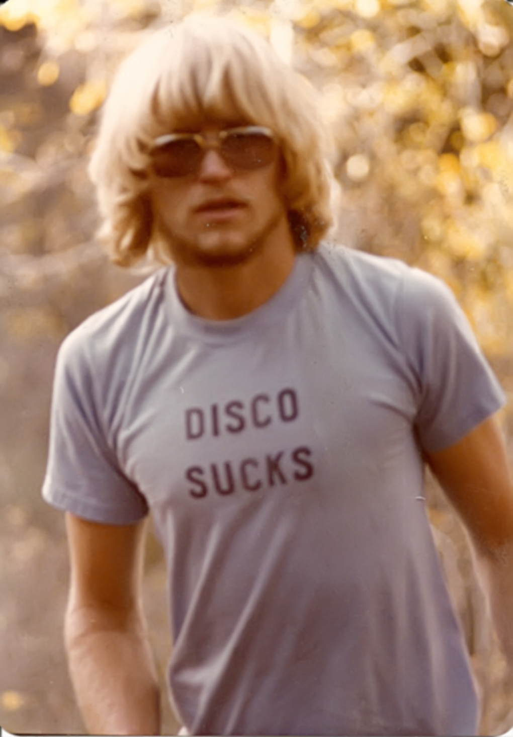 Original Disco Sucks T-Shirt worn by Rich Carey